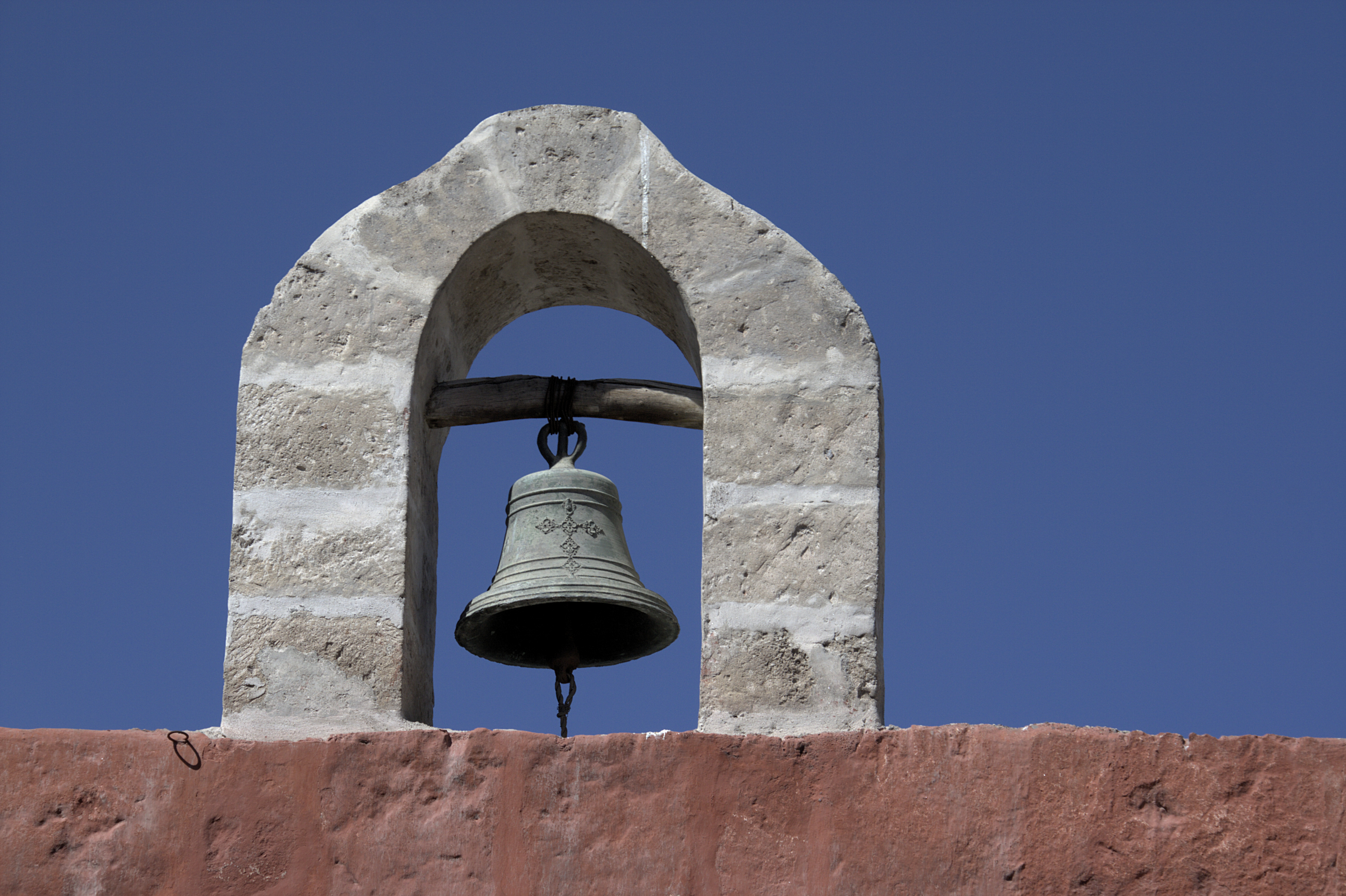 Bell in Monasterio de Santa Catalina, Arequipa/Peru